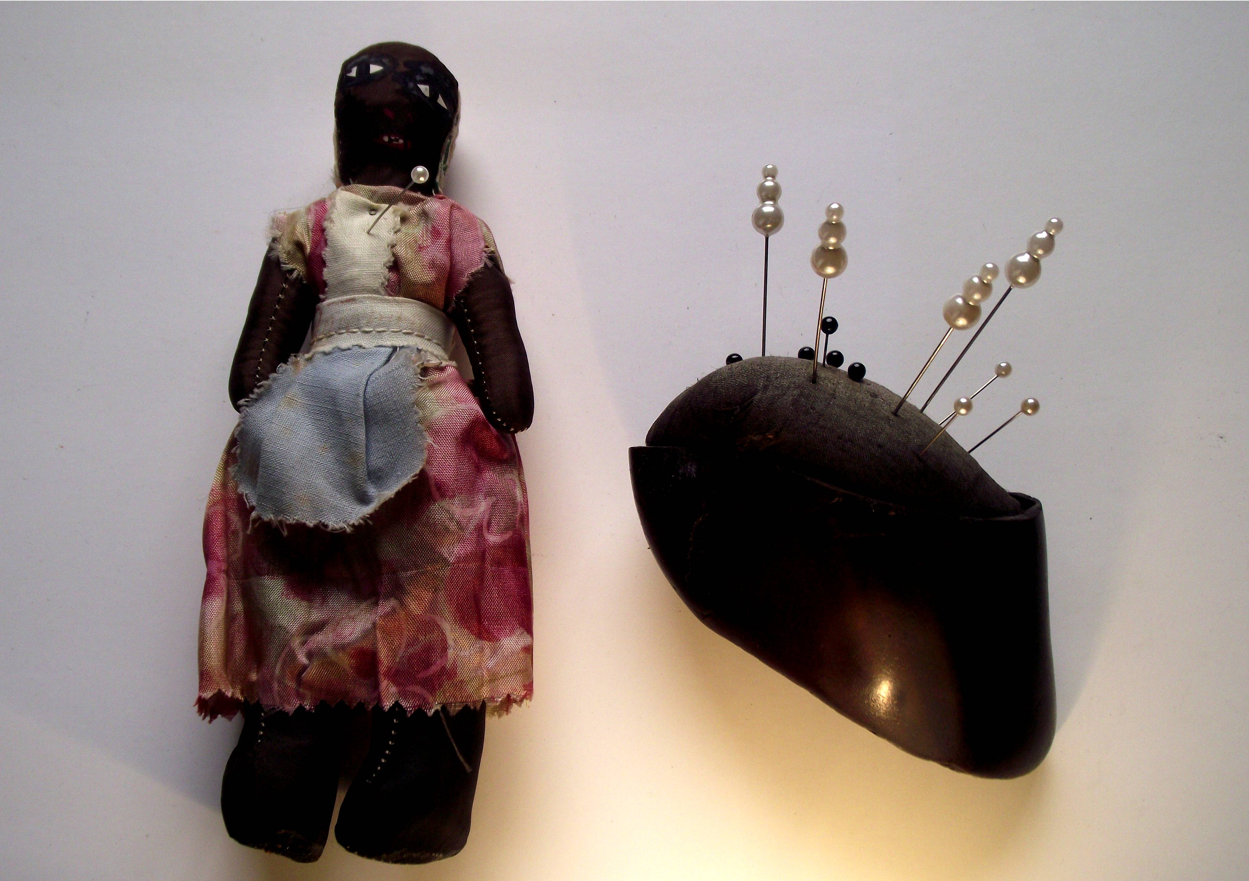 From Mal Corvus Witchcraft & Folklore artefact private collection owned by Malcolm Lidbury (aka Pink Pasty) Witchcraft Tools